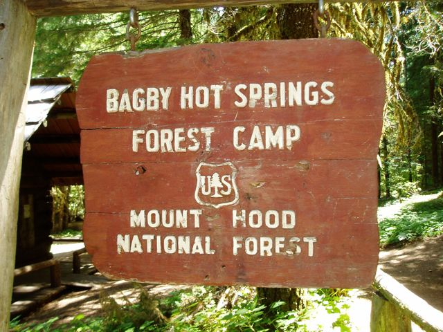 This is a photo taken by me on location: Bagby Hot Springs, Oregon, US